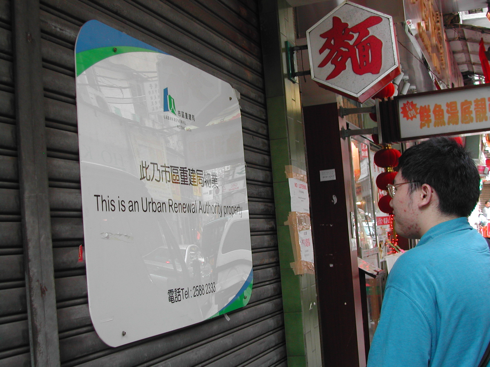 Photoed by Jerry Crimson Mann 19:50, 5 Jun 2005 (UTC).